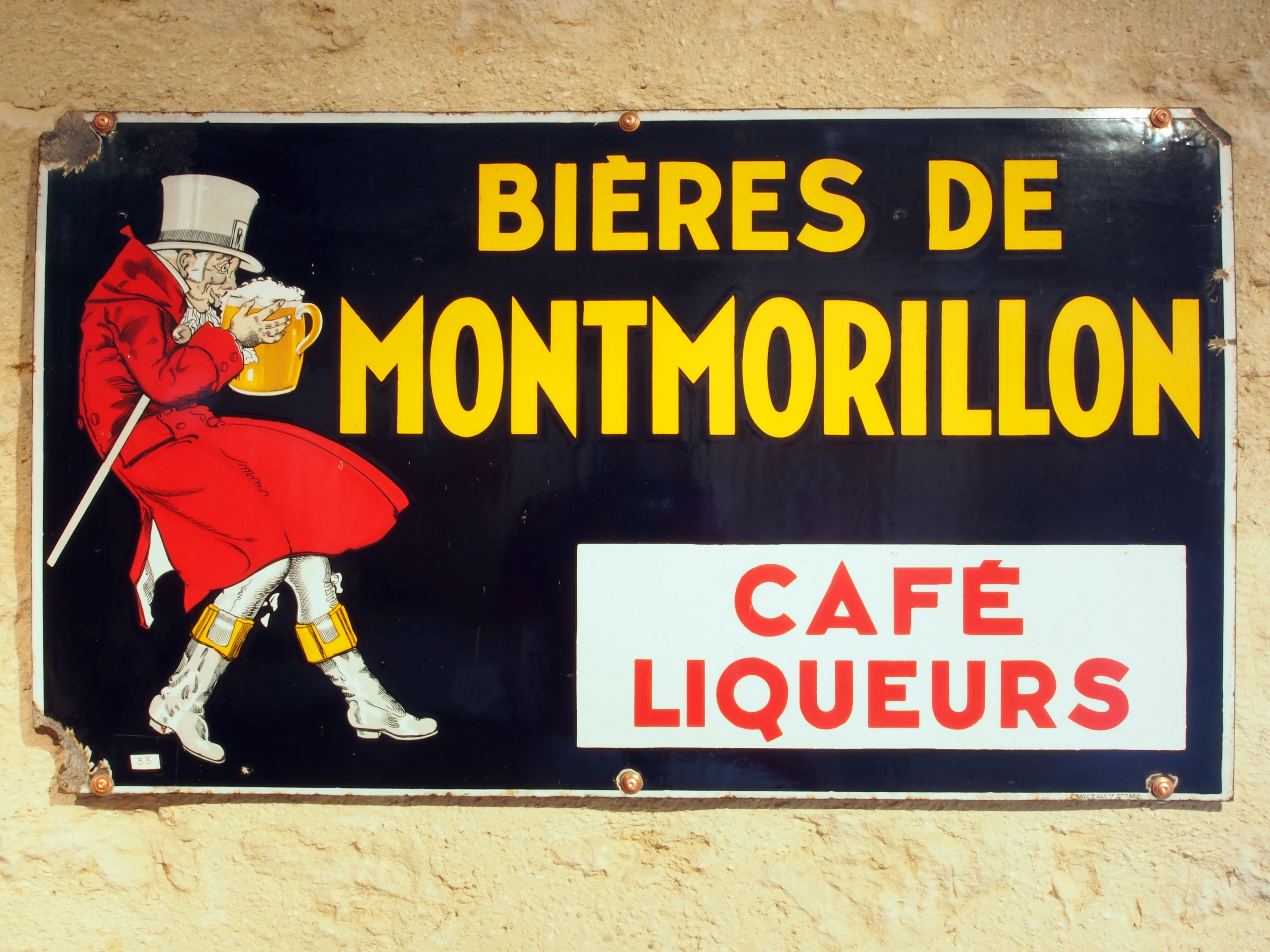 Beers of Montmorillon and café liqueurs.